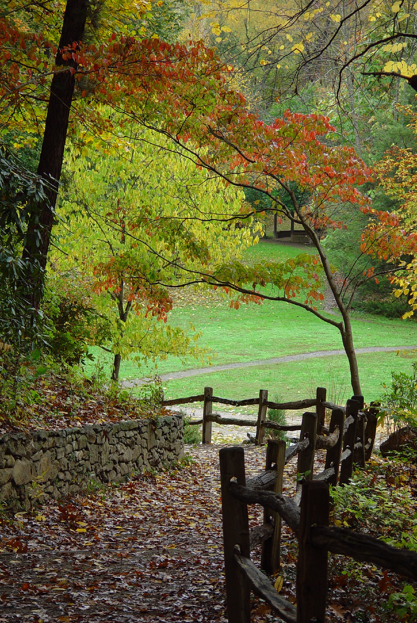 The Crayton Trail at the Botanical Gardens at Asheville in fall.